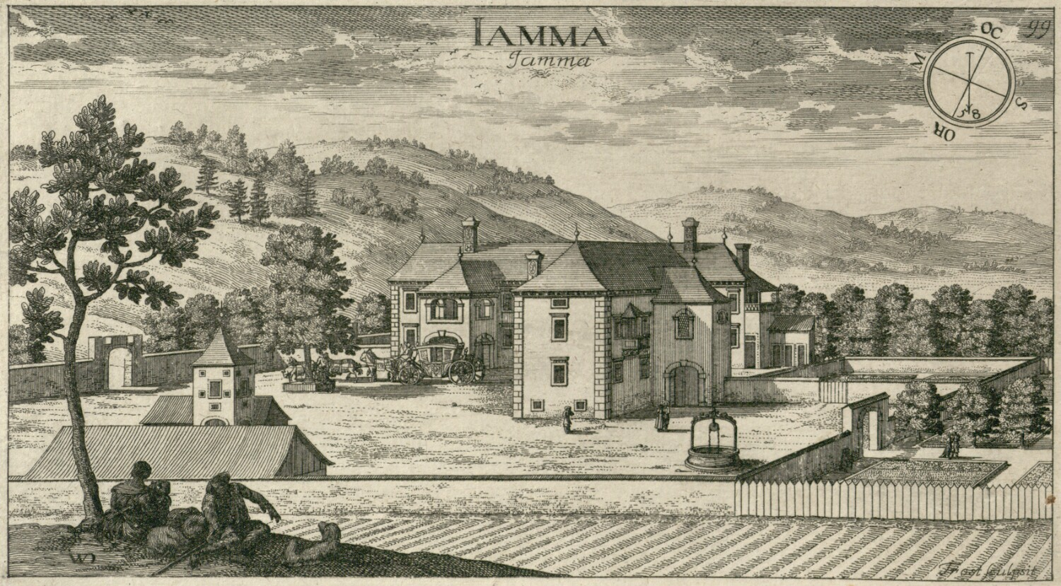 Jama Castle, engraving from Valvasor topography, 1679